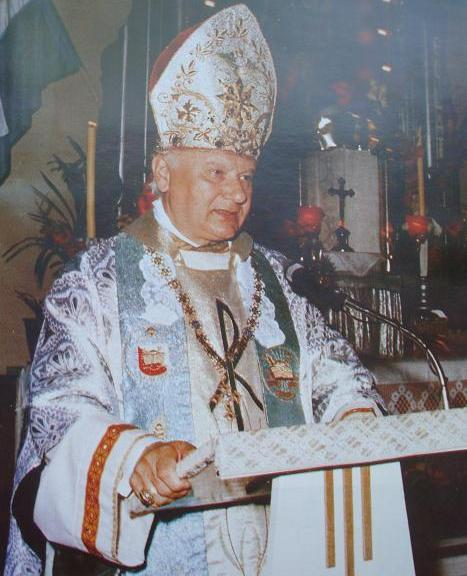 The Polish Catholic Church superior's: Bishop Thaddeus Richard Majewski (1975-1995)